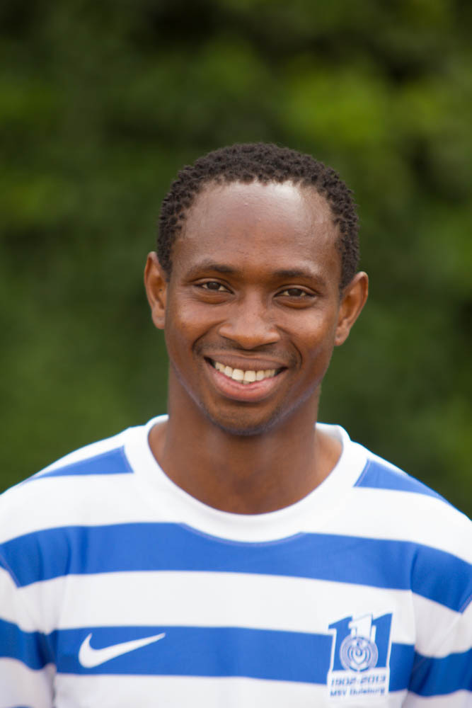 Burkinabé football player Patrick Zoundi, MSV Duisburg